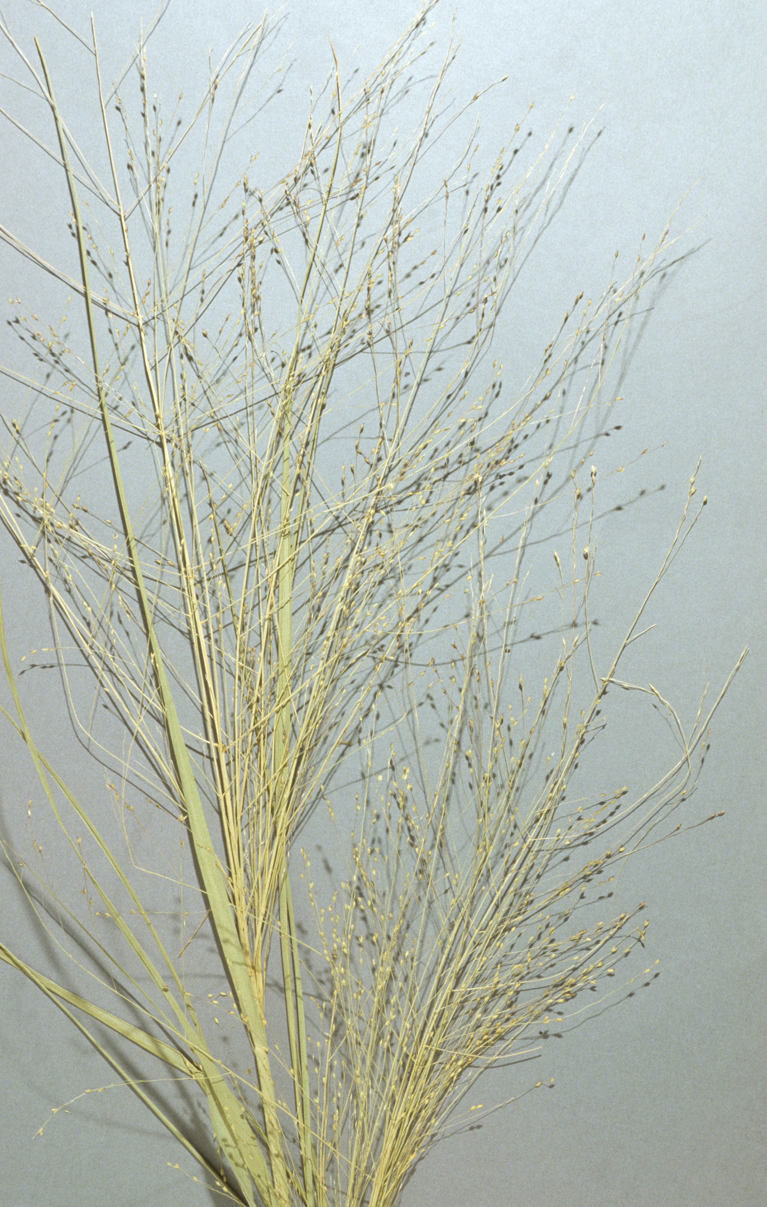 Flowerheads are open panicles to 40cm long and with, more or less, paired unawned spikelets. It breaks off and blows away when mature. Spikelets are 2-flowered, 2.5–3.5 mm long and hairless. The lower glume is about 20-30% the length of the spikelet; upper is the shape and size of the spikelet. Lower lemma is sterile. Upper lemma is 1.8–2.3 mm long, smooth, shining and with prominently paler nerves.